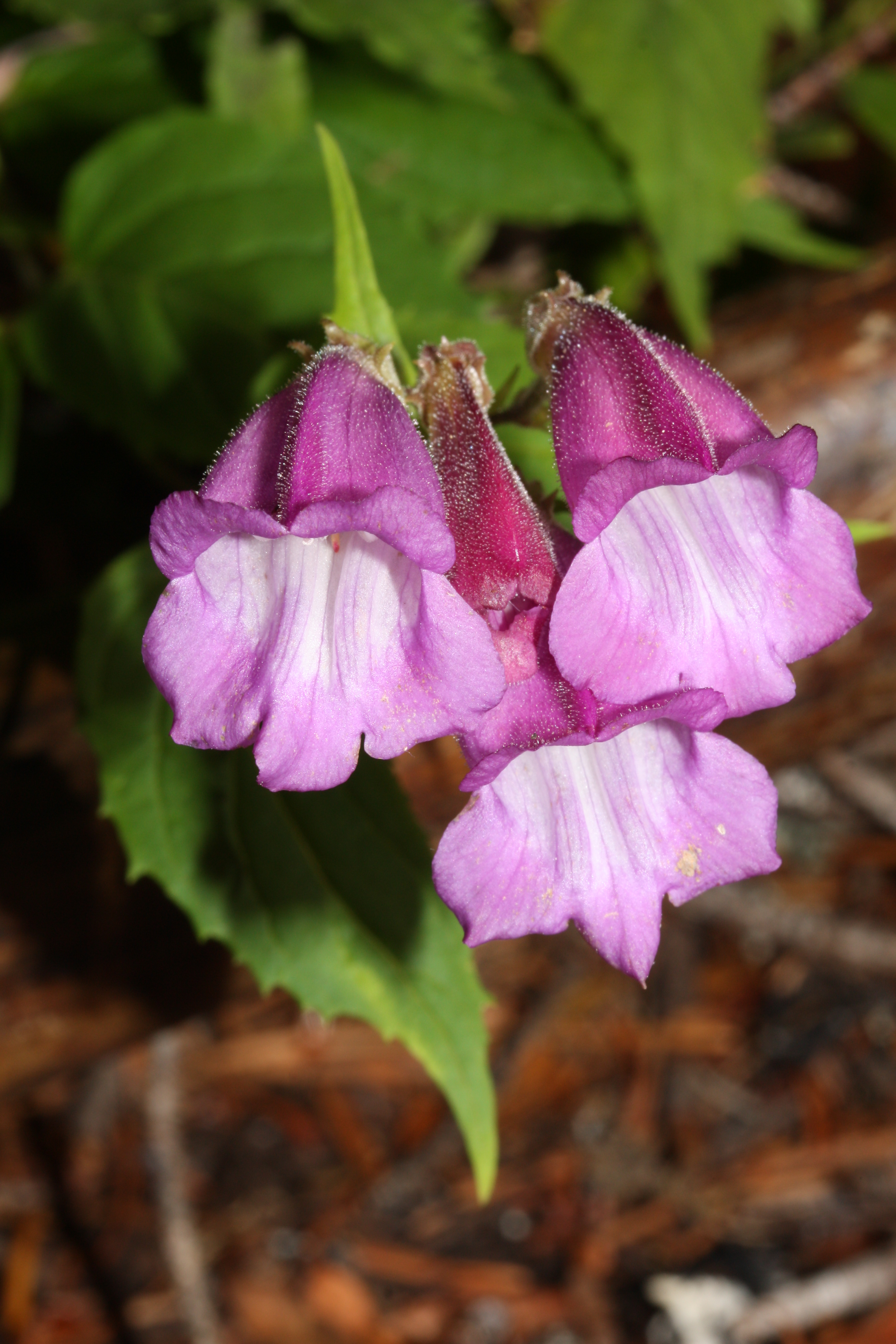 Woodland Beardtongue